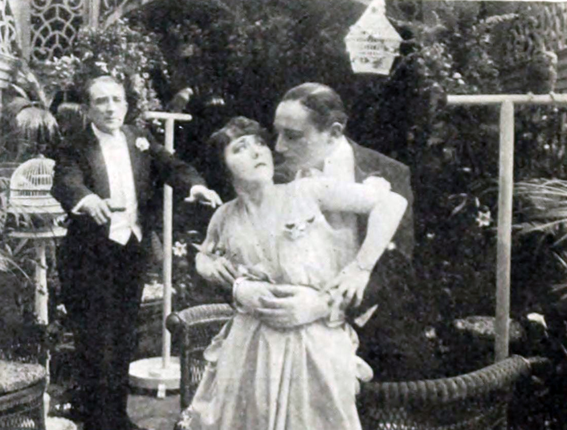 Illustration of a review in The Moving Picture World